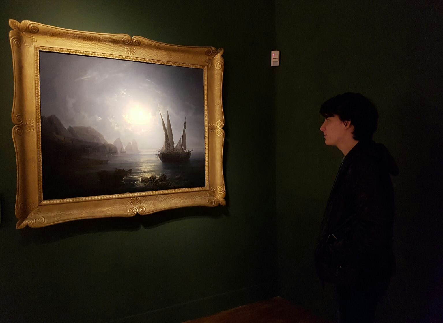 Picture of a young person gazing upon a masterpiece by Fergola